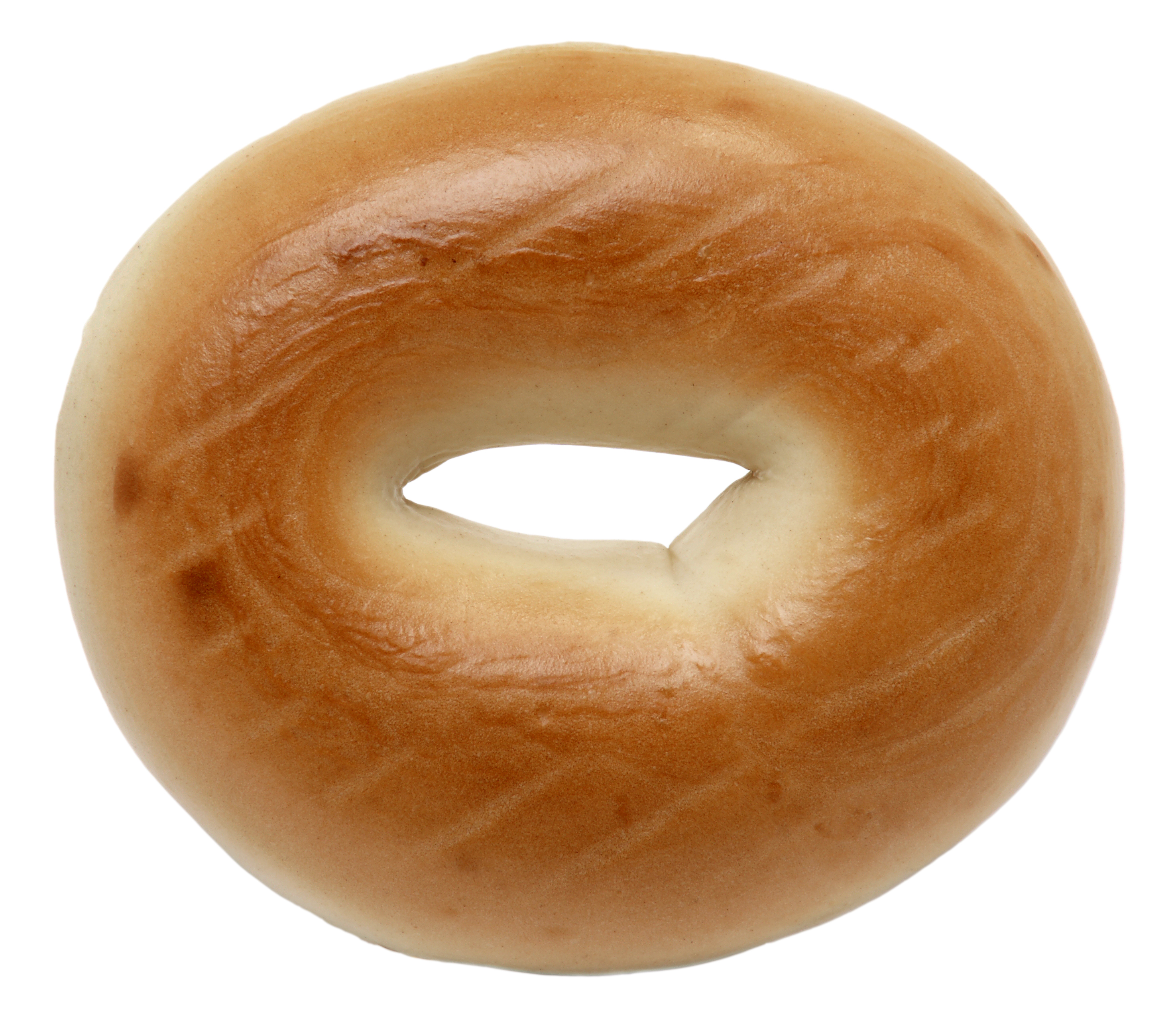 A plain bagel, bought from an Associated grocery store in Brooklyn in their daily bread section.